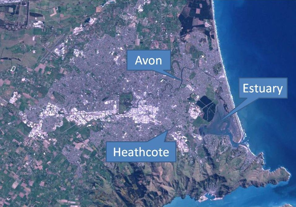 Avon Heathcote Estuary The satellite image shows Christchurch's Avon and Heathcote Rivers flowing into their shared estuary.